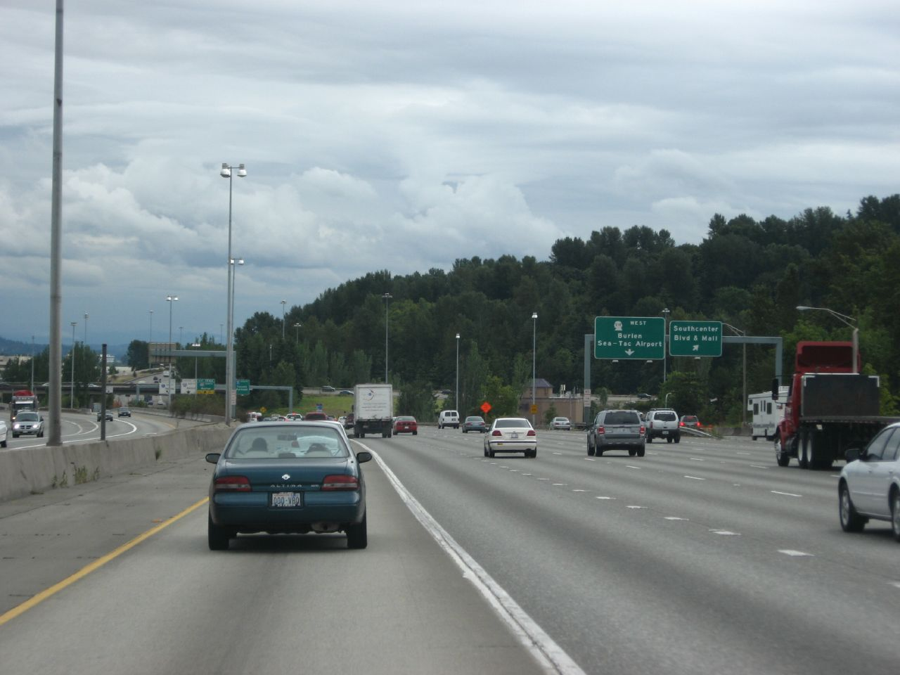 Southbound Interstate 5, at the eastern terminus of Washington State Route 518 in Tukwila.